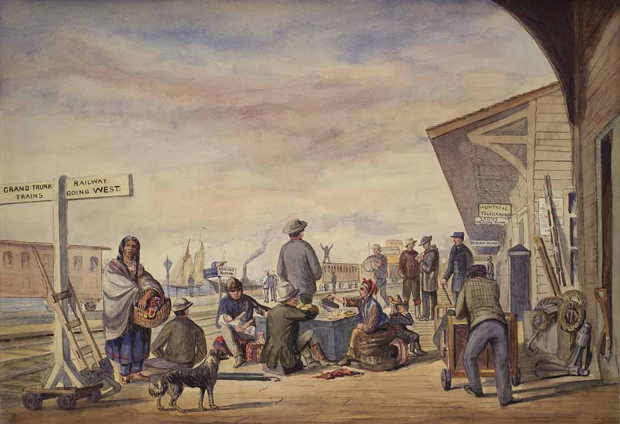 A view of Toronto's first Union Station in 1859. Built in 1858 at the foot of York Street and overlooking the harbour, the station was demolished in 1871 when it could no longer handle the growing volume of traffic. A second Union Station was constructed immediately to the west.